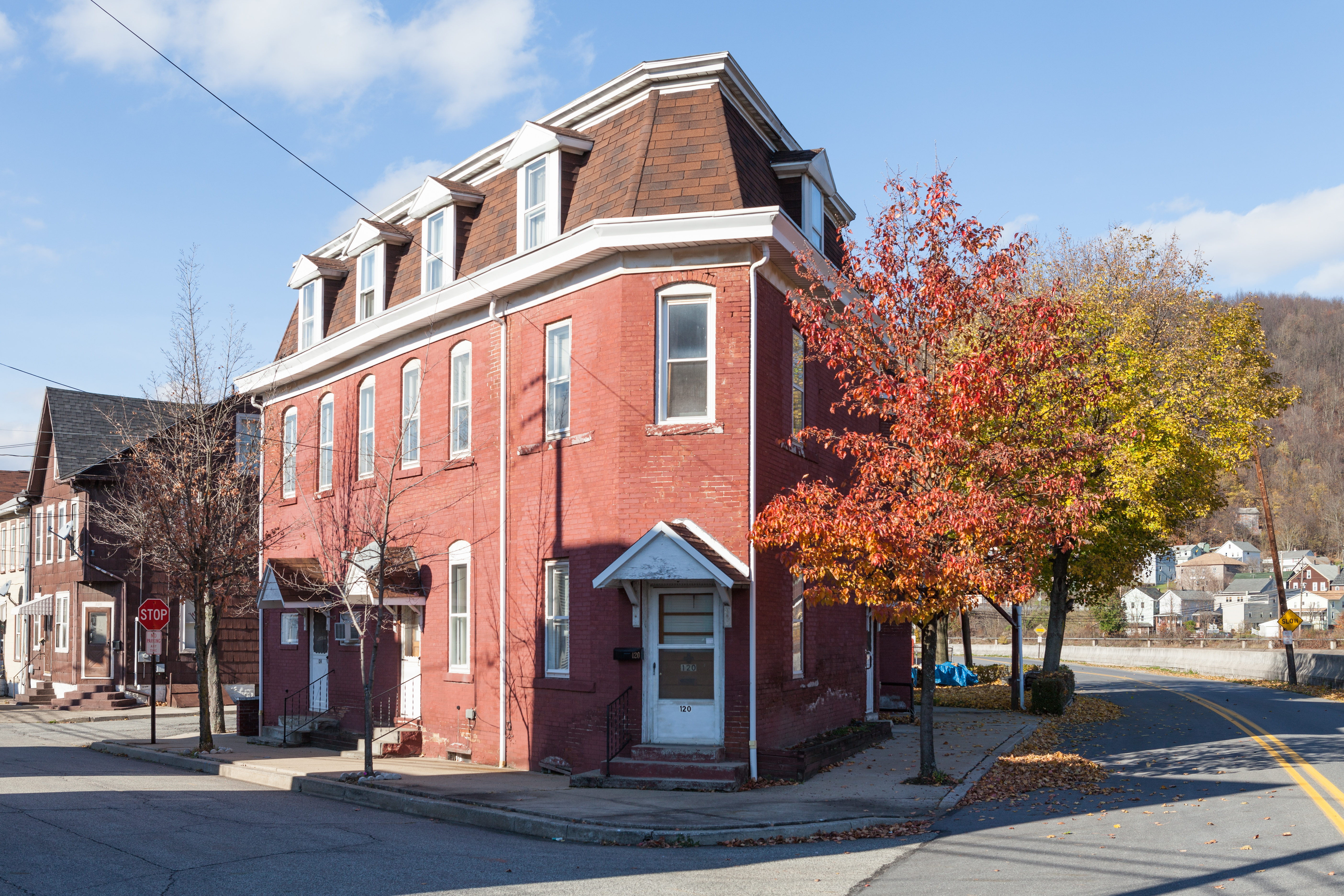 At 120 Chestnut, the Victor and Etella Faith House. Its irregular shape makes it one of the most striking buildings in the Cambria City Historic District, Johnstown, Pennsylvania.